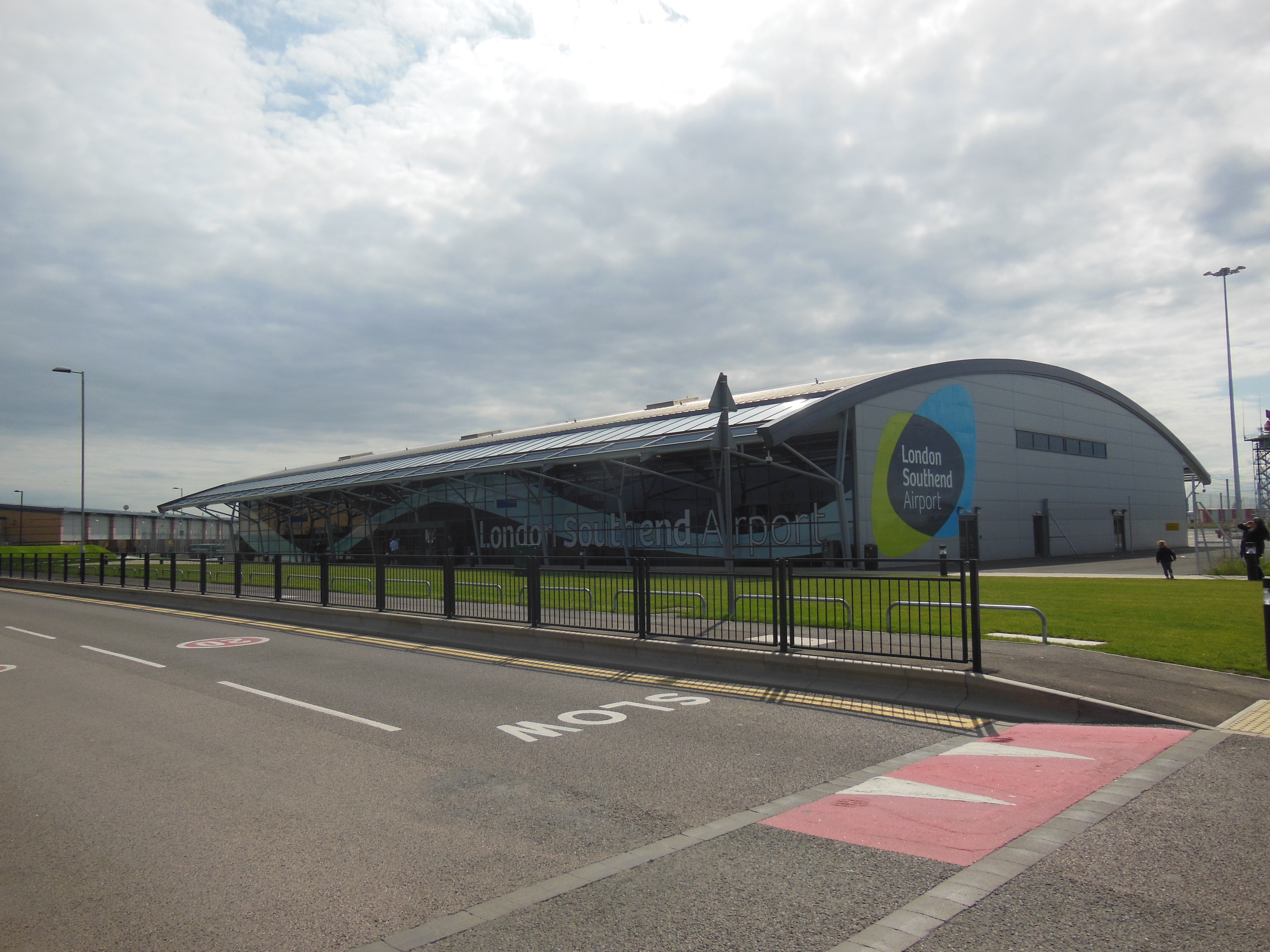 Southend Airport terminal building, seen from near the railway station. For more information, see Wikipedia article Southend Airport.